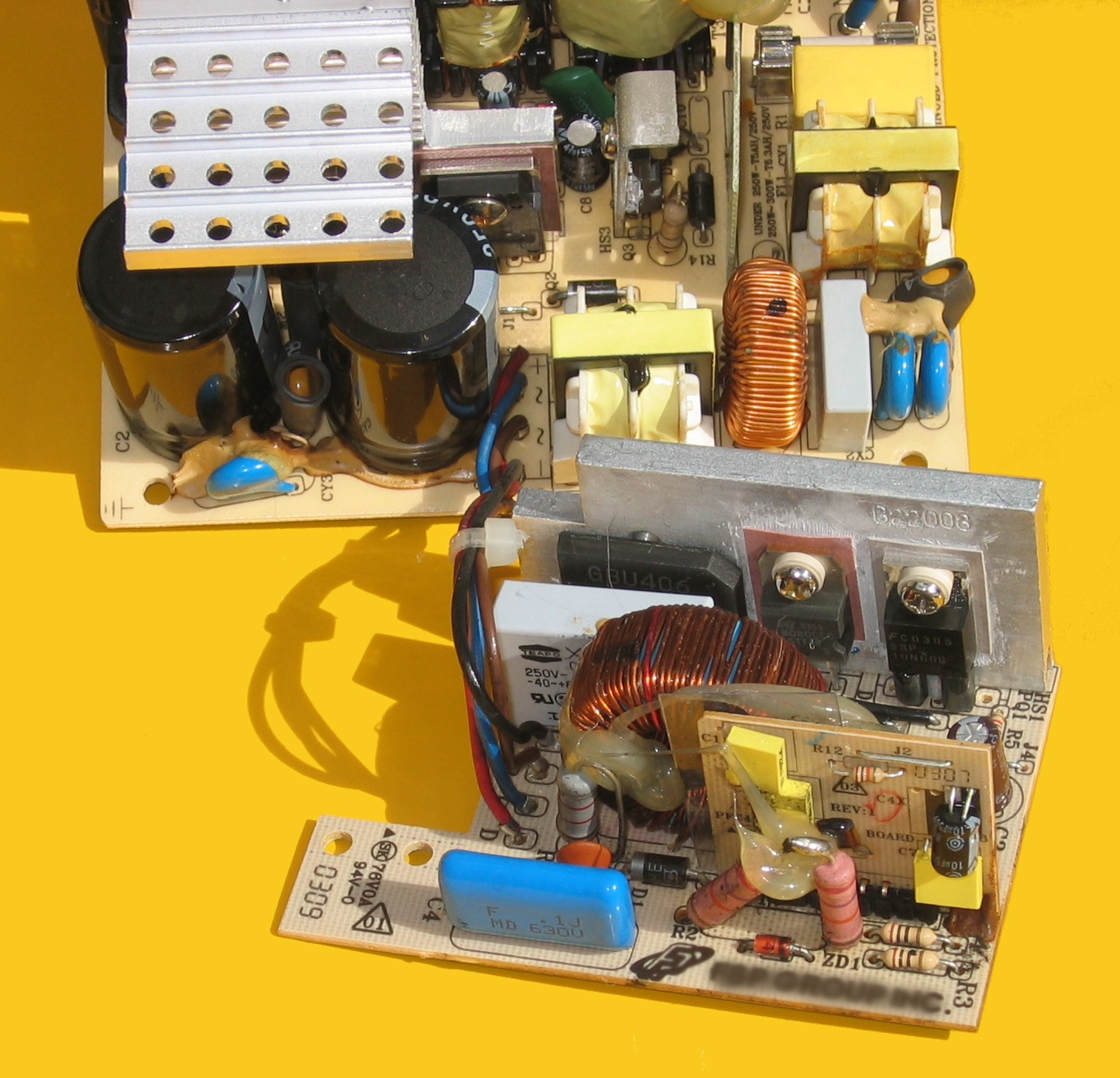 Active PFC